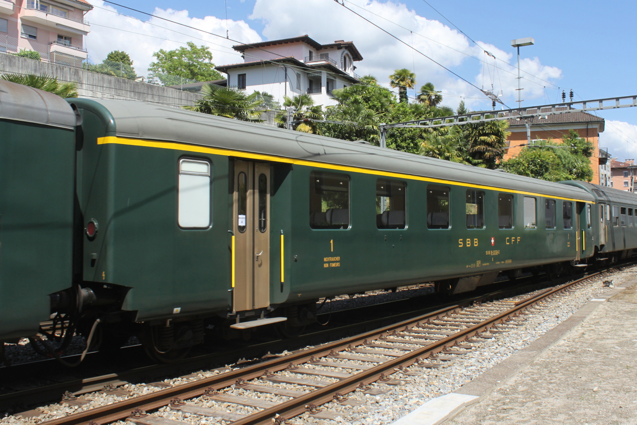 A 55 85 18-33 524-2 of association Depot und Schienenfahrzeuge Koblenz (DSF) at Locarno station.